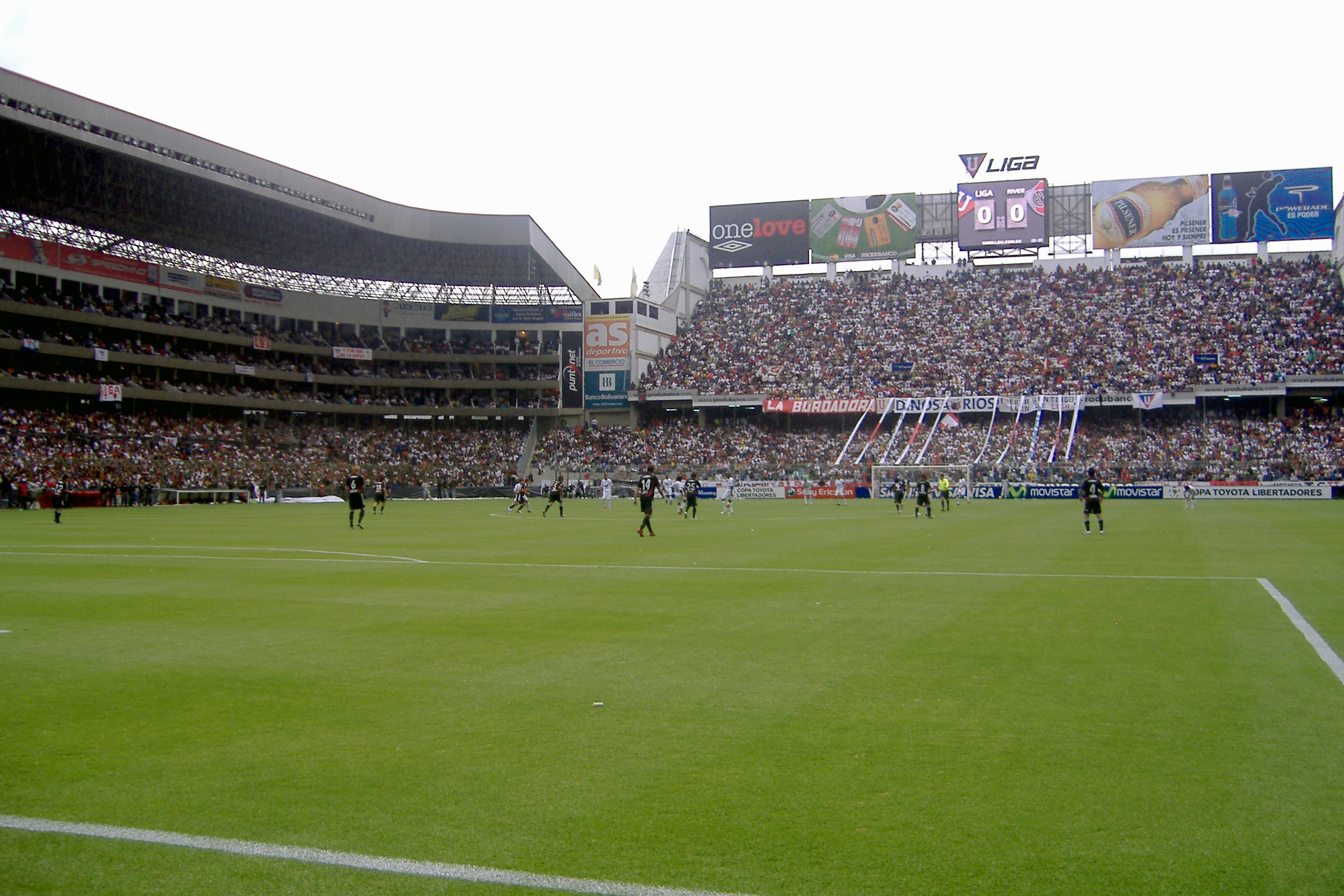 Internal Photo of the "Liga Deportiva Universitaria" Stadium (AKA "Casa Blanca") Taken by me as a voluntary contribution to the team official web site, The date of the photo is 15-MAR-2007. The match is Liga against River Plate, for the second round of the Copa Libertadores 2007 Since the Flickr copy and the copy int the club's official website are gone I maintain the same license, you can verify it in my website Please note that this of the file is special for Wikimedia Commons and its related projects, without team logos or watermarking.